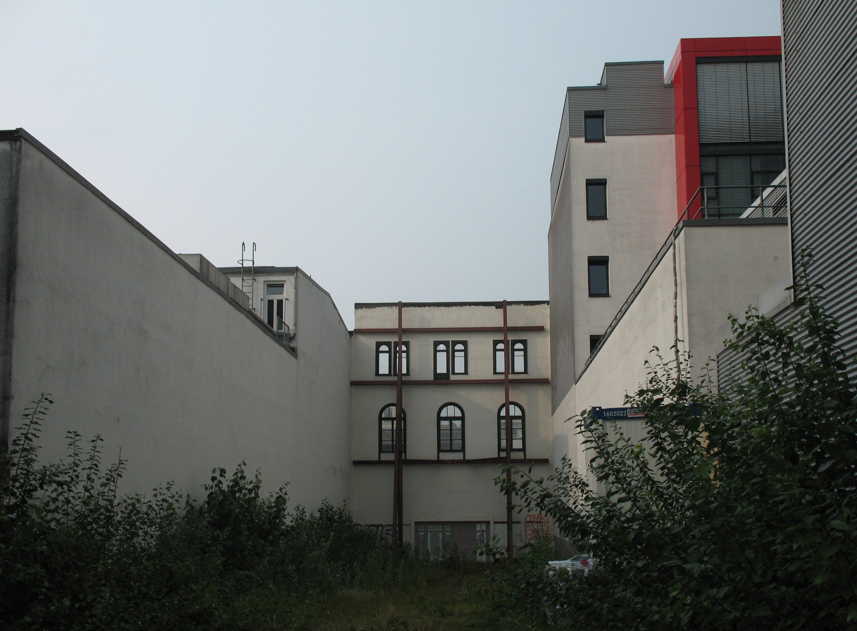 Facadism in Hamburg-St. Pauli, Germany